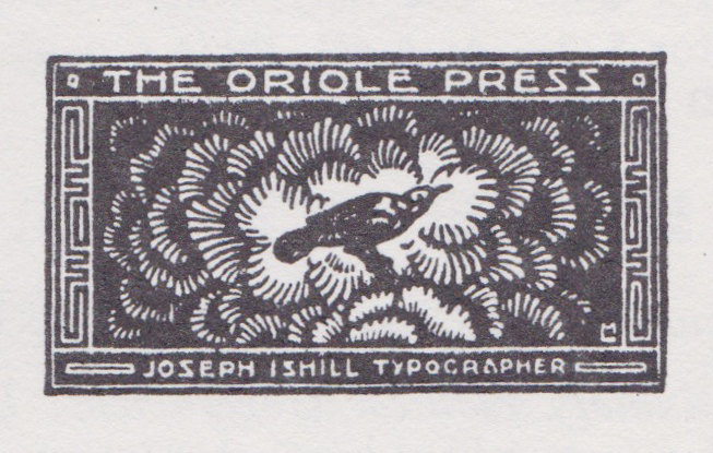 Colophon of The Oriole Press, a small American publishing press run by Joseph Ishill